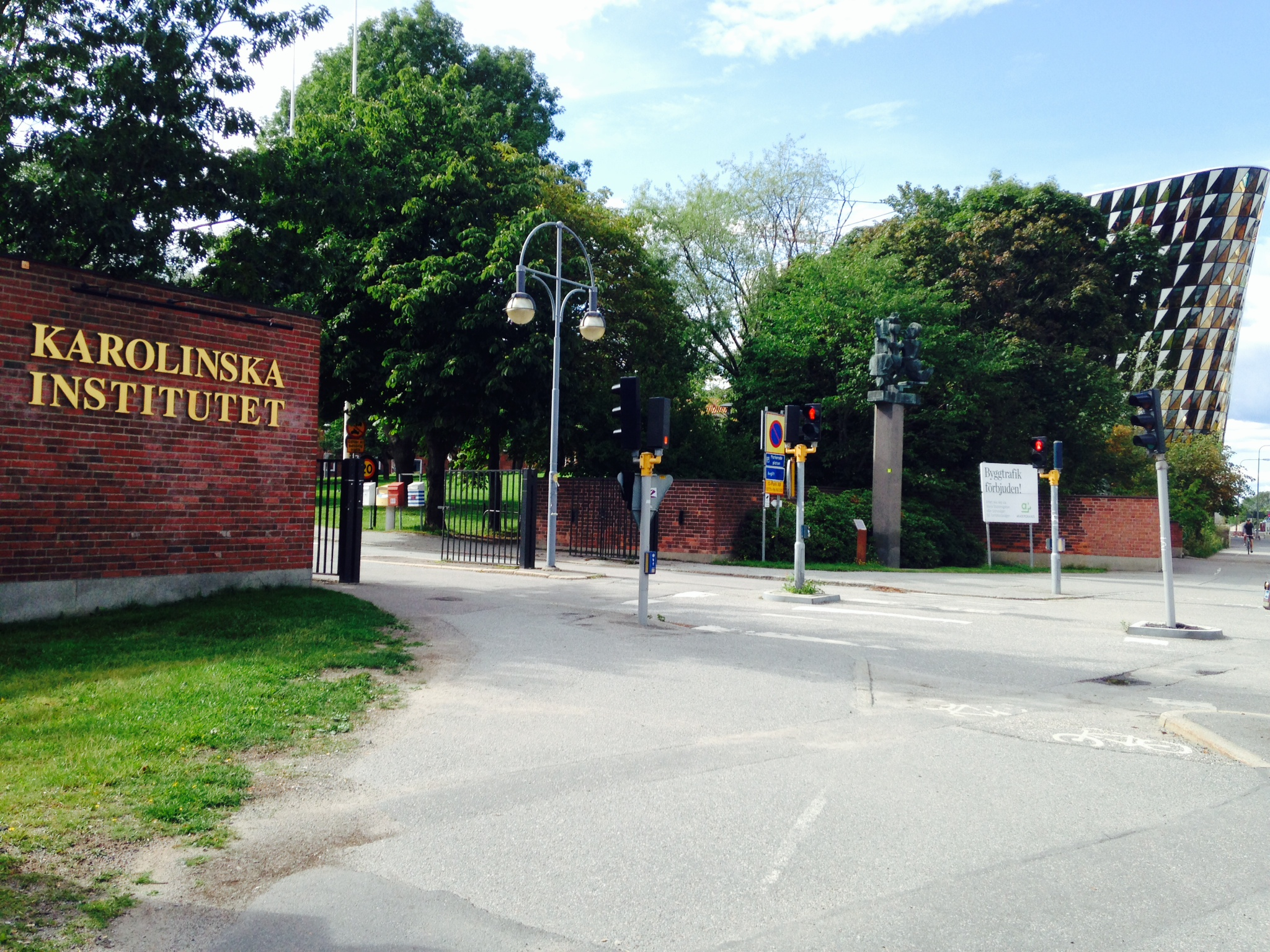 Main entrance from Solnavägen with the 'Aula Medica' in the background